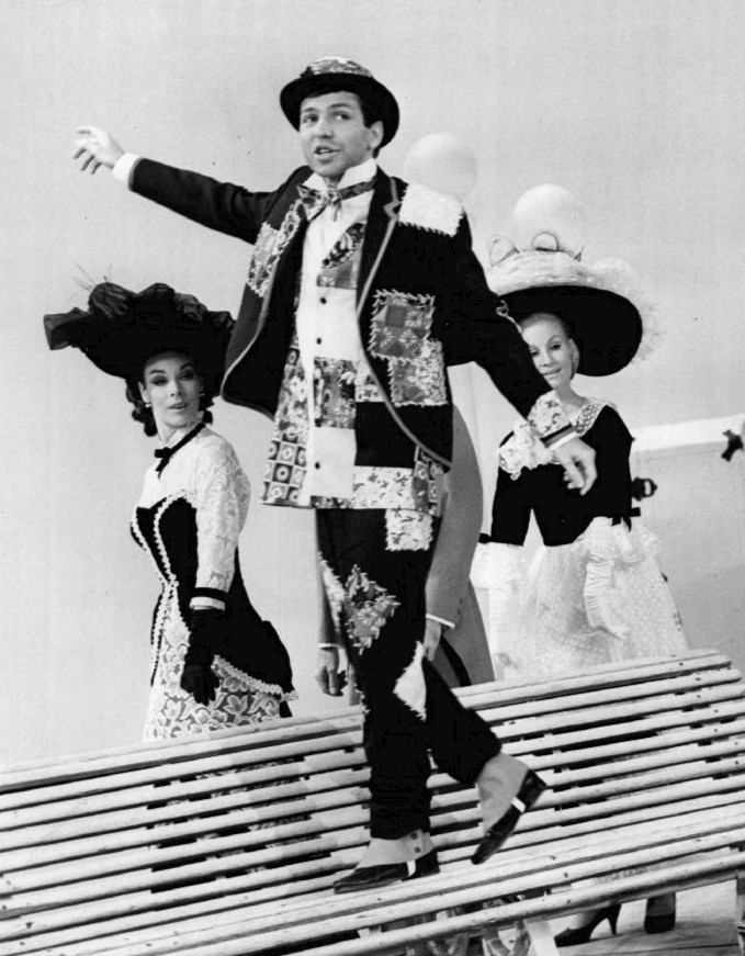 Photo of Frank Sinatra, Jr. performing on The Red Skelton Show.